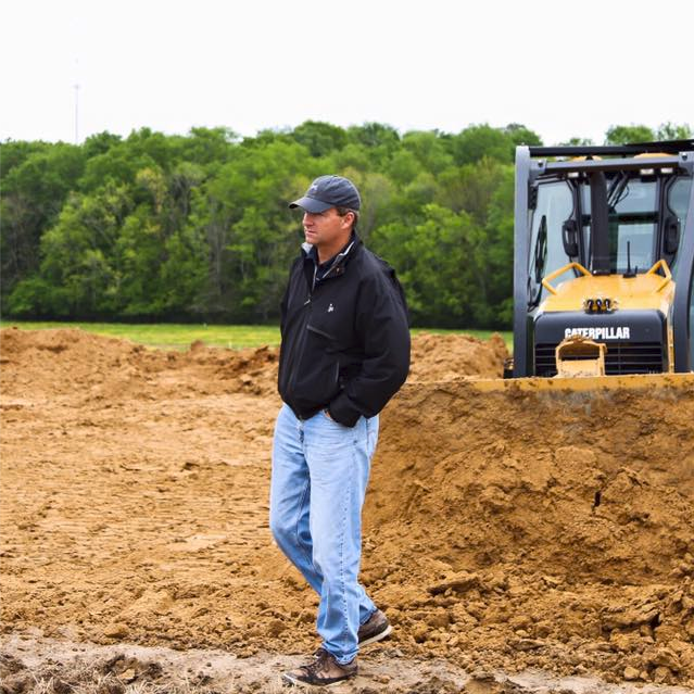 Gil Hanse in front of his bulldozer as he shapes a green at Mossy Oak Golf Club